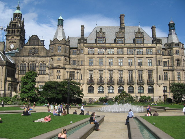 Town Hall, Sheffield It was designed by the London-based architect E. W. Mountford in the Gothis Revival style and constructed over a seven year period from 1890 to 1897, opening on 21 May 1897. The exterior is built of "Stoke" stone from the Stoke Hall Quarry in Grindleford, Derbyshire and is decorated with carvings by F. W. Pomeroy. The building was officially opened on 21st May, 1897 by Queen Victoria.